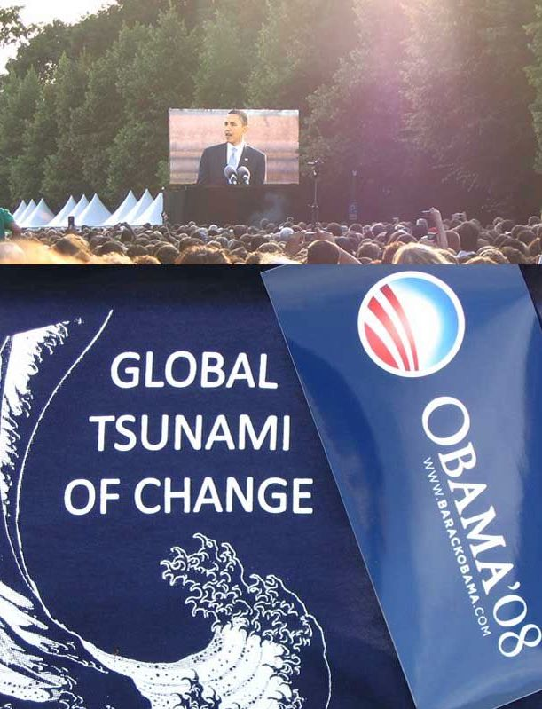 Roadmap for the Next 99 Days [Aug. 1- Nov. 4] The US Presidential elections are finally entering the homestretch after a seemingly endless qualify season. USA Today has laid out the last meters in great detail. They describe how the campaigns try to prepare in advance for the events they know about and how they react to all the unscripted surprises that might happen before it’s all over November 4th. Prime example are the Olympic Games, during which both candidates will find it hard to generate substantial press coverage of their campaigns. 100 days to go: The presidential race's red-letter days